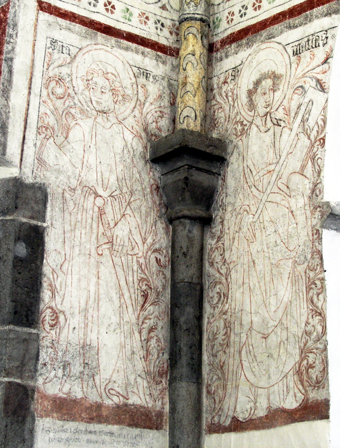 Othem kyrka / Othem church, Gotland, Sweden. Paintings showing to the right Saint Matthias.